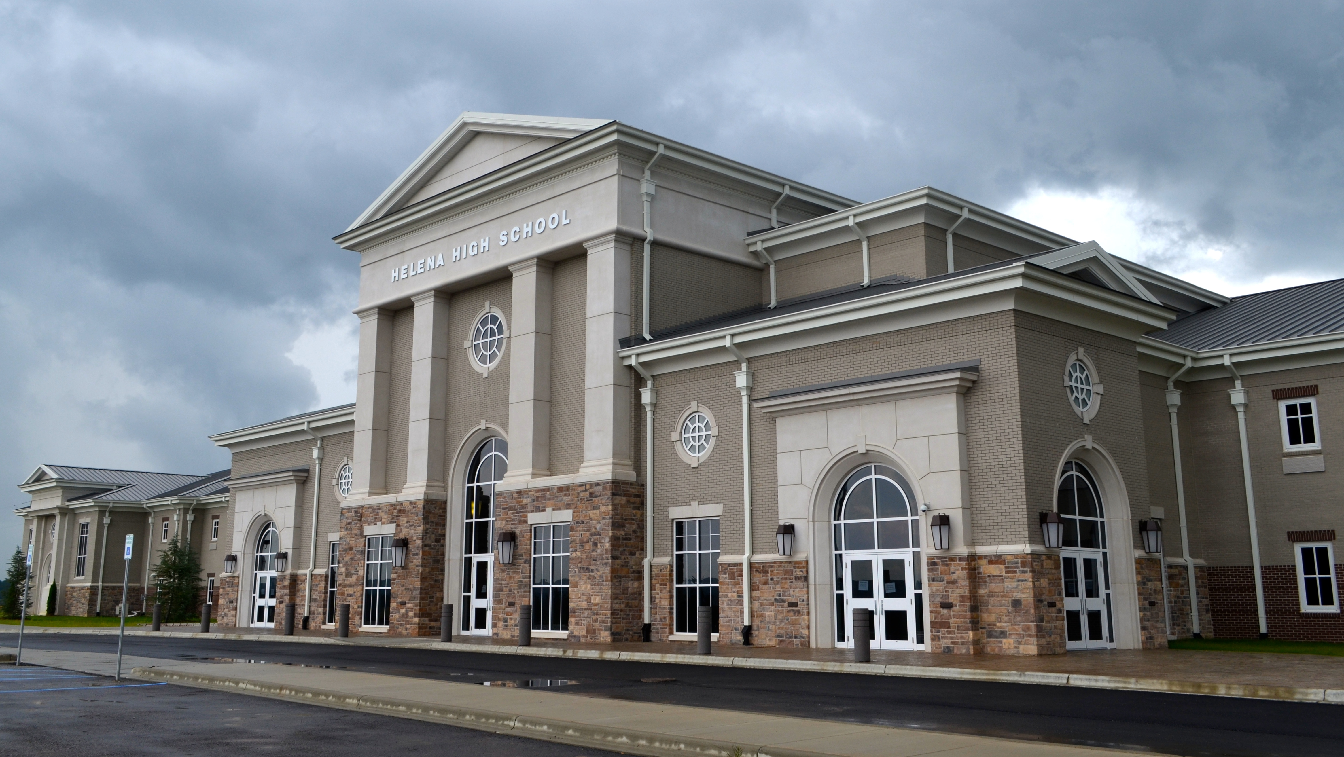 This is a photo of the front of Helena High School in Helena, Ala., including its main entrance and a small portion of its front parking lot. This is the west side of the school.